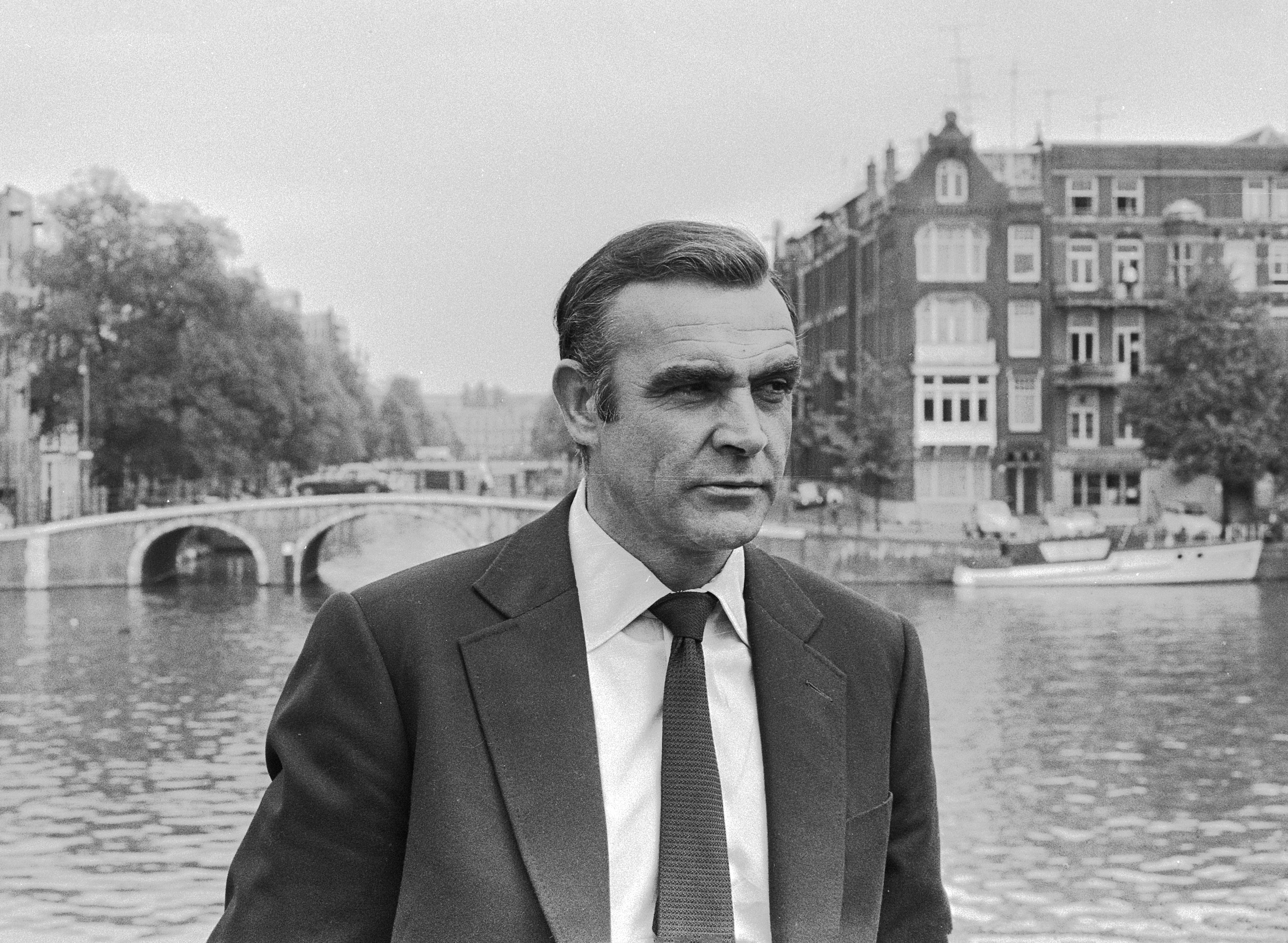 Sean Connery shooting the James Bond movie "Diamonds are Forever" in Amsterdam, the Netherlands.